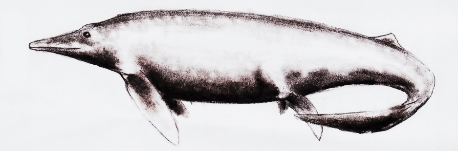 shastasaurus sikanniensis (formerly known as Shonisaurus sikanniensis)